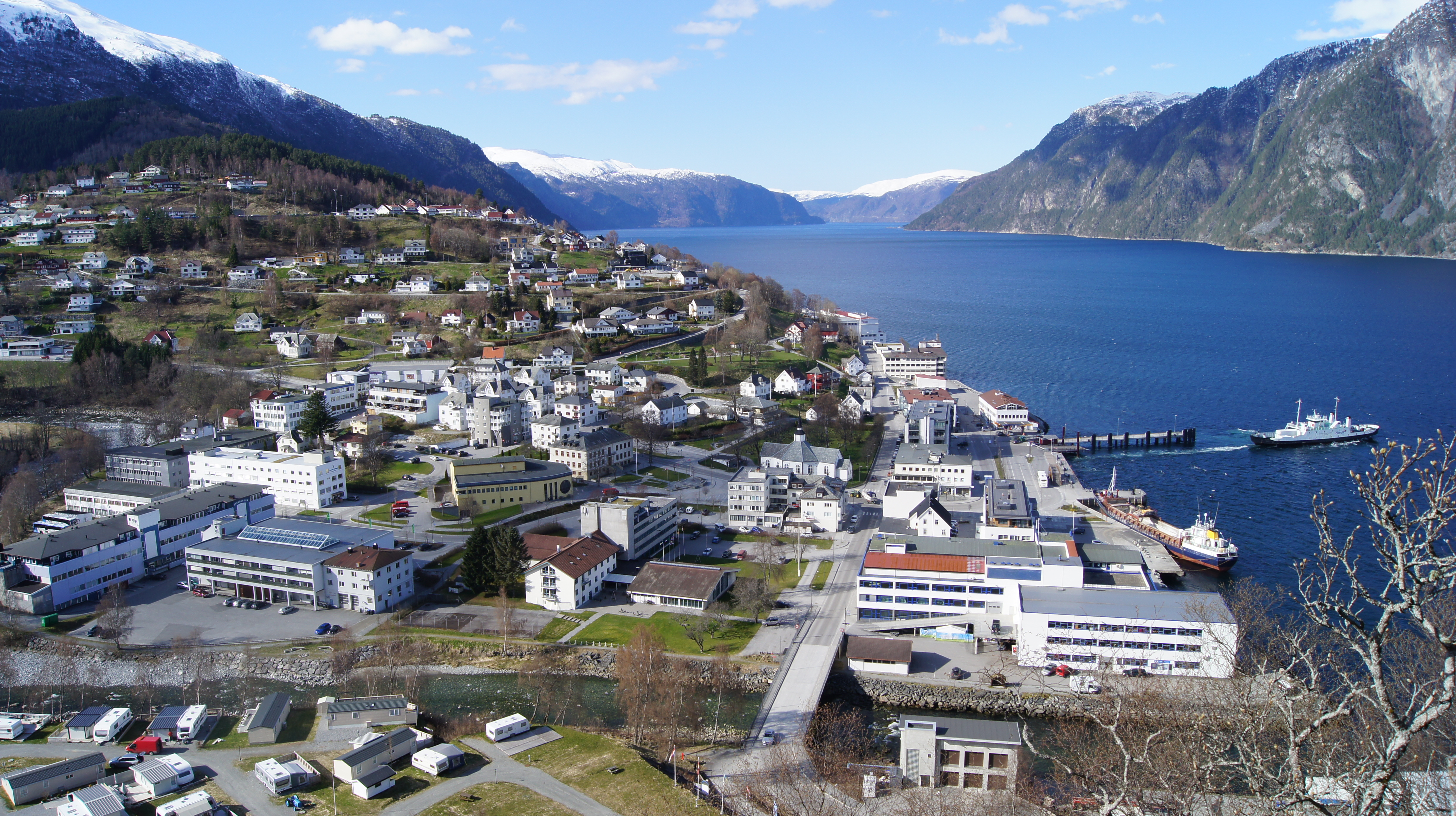 Stranda Kommune, Norway.